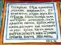 Inscription on the church of Bošava Monastery, Macedonia